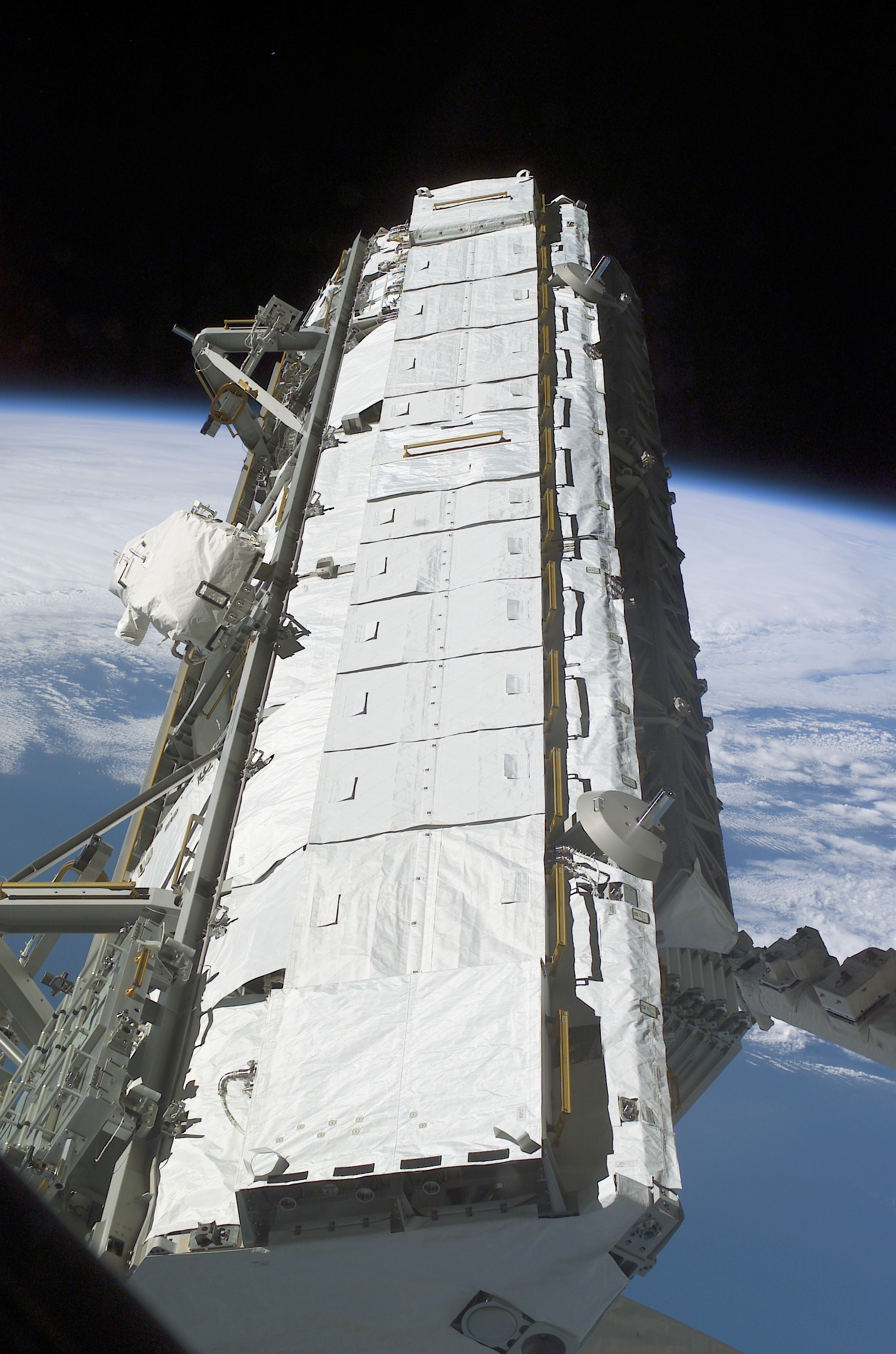 Backdropped by the blackness of space and Earth's horizon, the Starboard One (S1) Truss is moved from the Space Shuttle Atlantis' cargo bay. Astronauts Sandra H. Magnus, STS-112 mission specialist, and Peggy A. Whitson, Expedition Five flight engineer, used the Canadarm2 from inside Destiny laboratory on the International Space Station (ISS) to lift the S1 Truss out of the orbiter's payload bay and move it into position at the starboard end of the S0 (S-Zero) Truss.